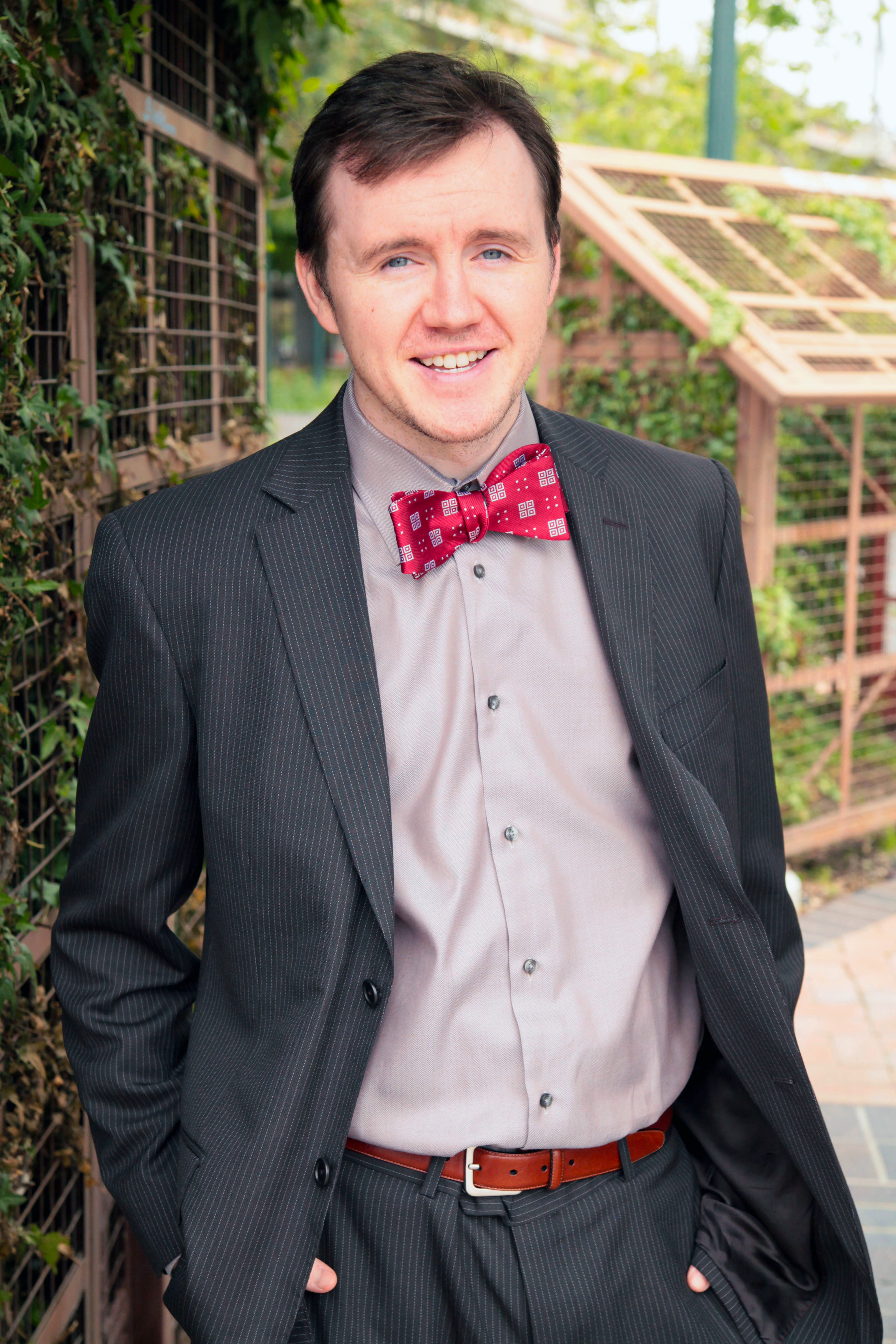 Steven Wade, Picture Taken at GDC 2013